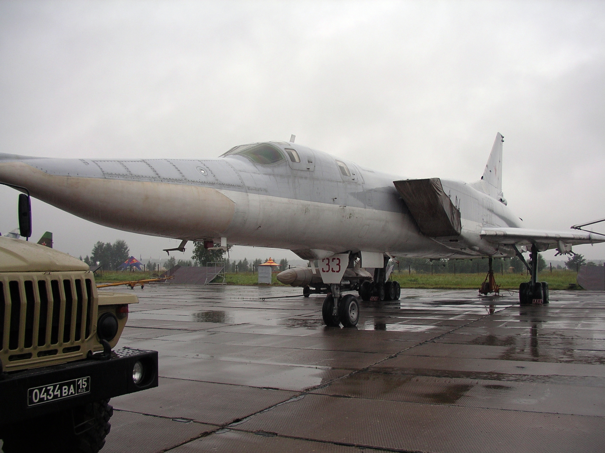 Tu-22M3 at military runway, 16 Aug 2004